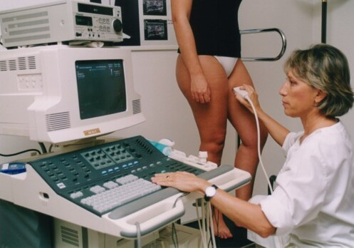 Performing a venous echodoppler